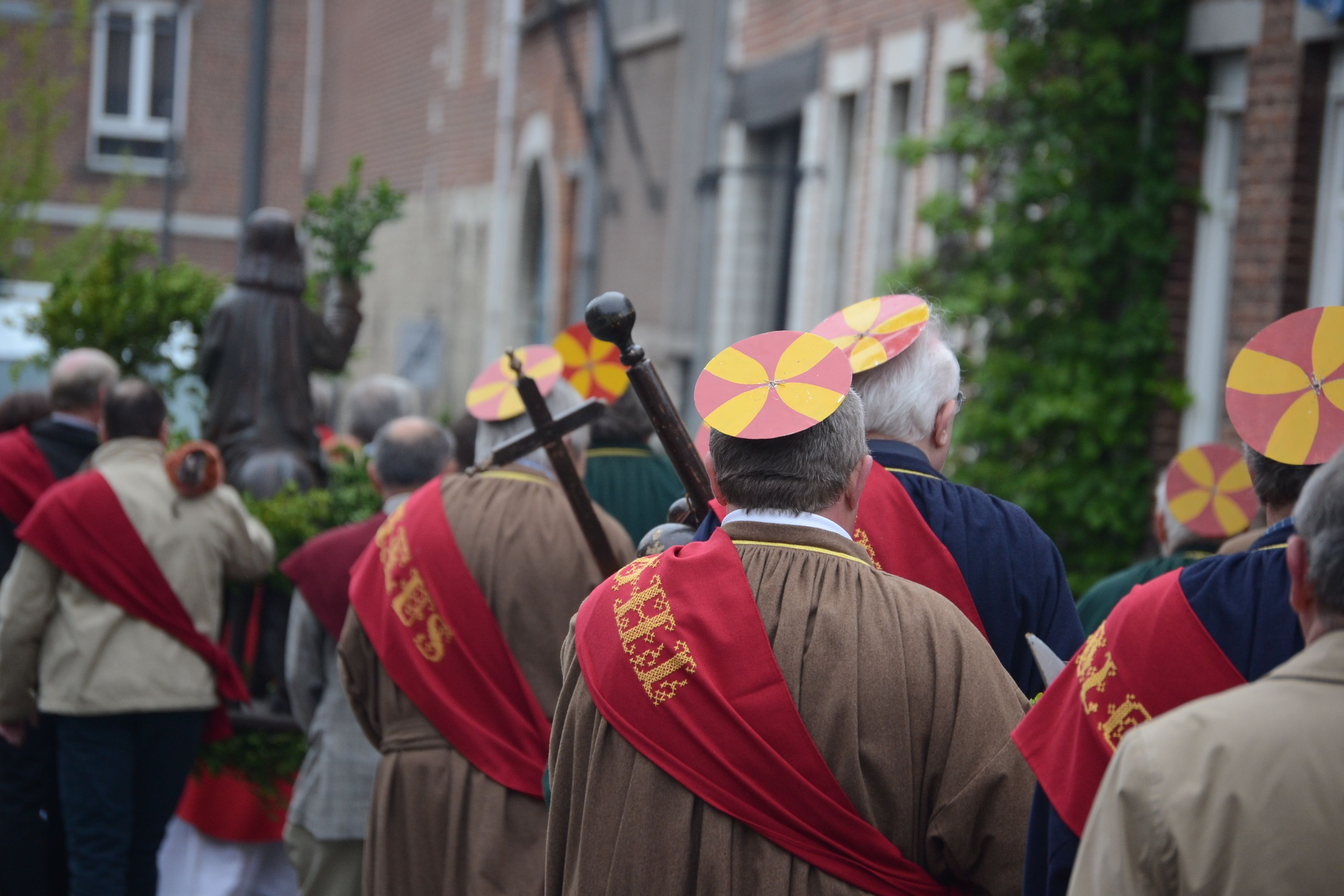 Society of the Apostles of Hoegaarden